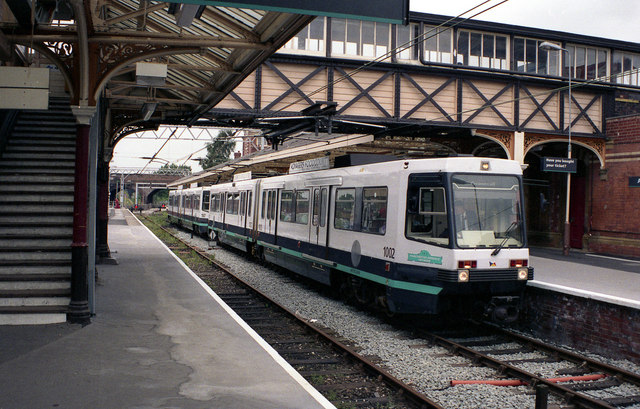 Altrincham station Cars 1002 and 1007 wait coupled together to form a northbound service. The operation of coupled cars on Metrolink is quite unusual, although the large crowds of passengers offering at some times of the day would make it desirable. The problem, basically, is lack of sufficient rolling stock.